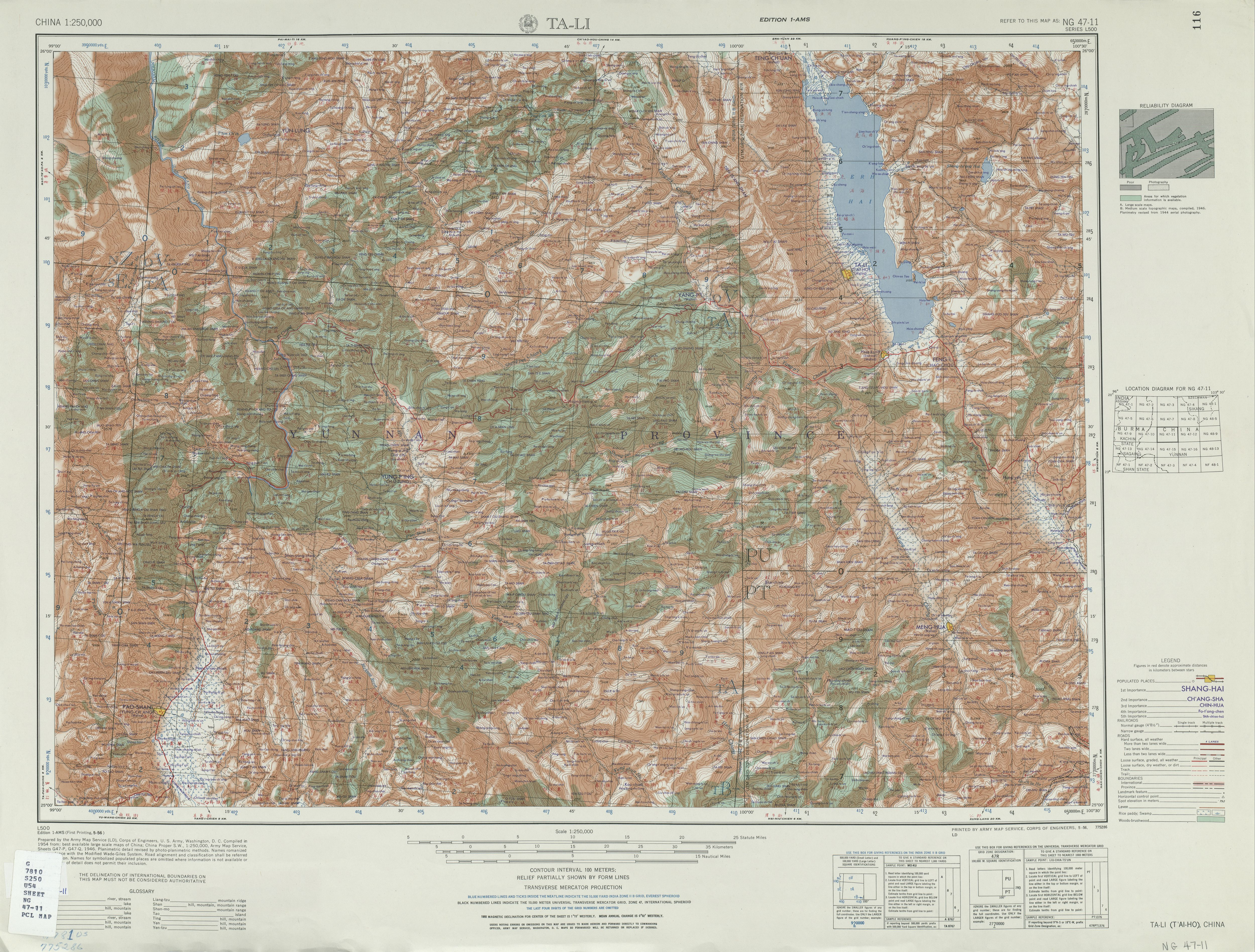 China AMS Topographic Maps